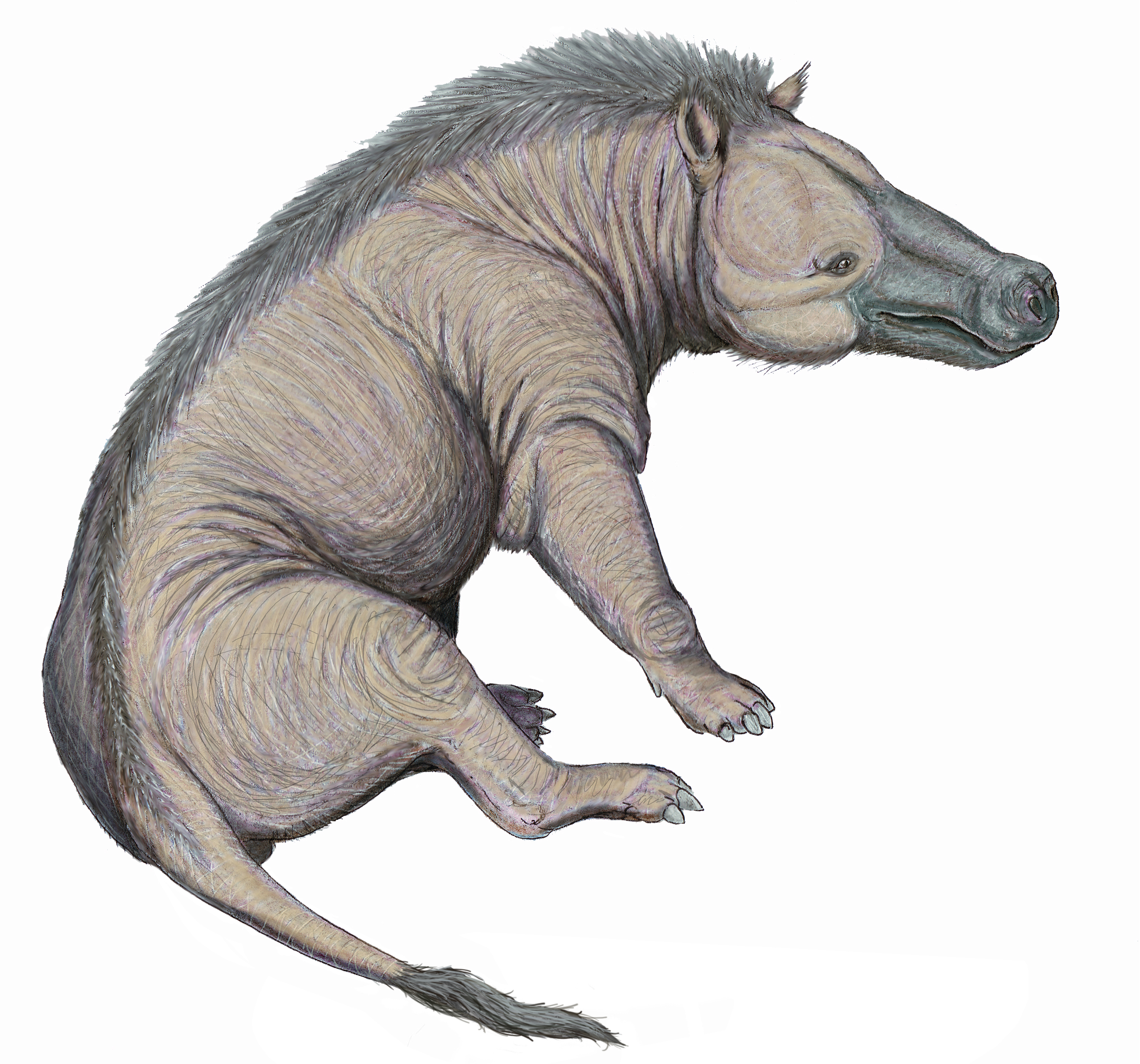 The enigmatic Andrewsarchus mongolensis of the Eocene restored as a Cetancodontamorph related to Entelodonts